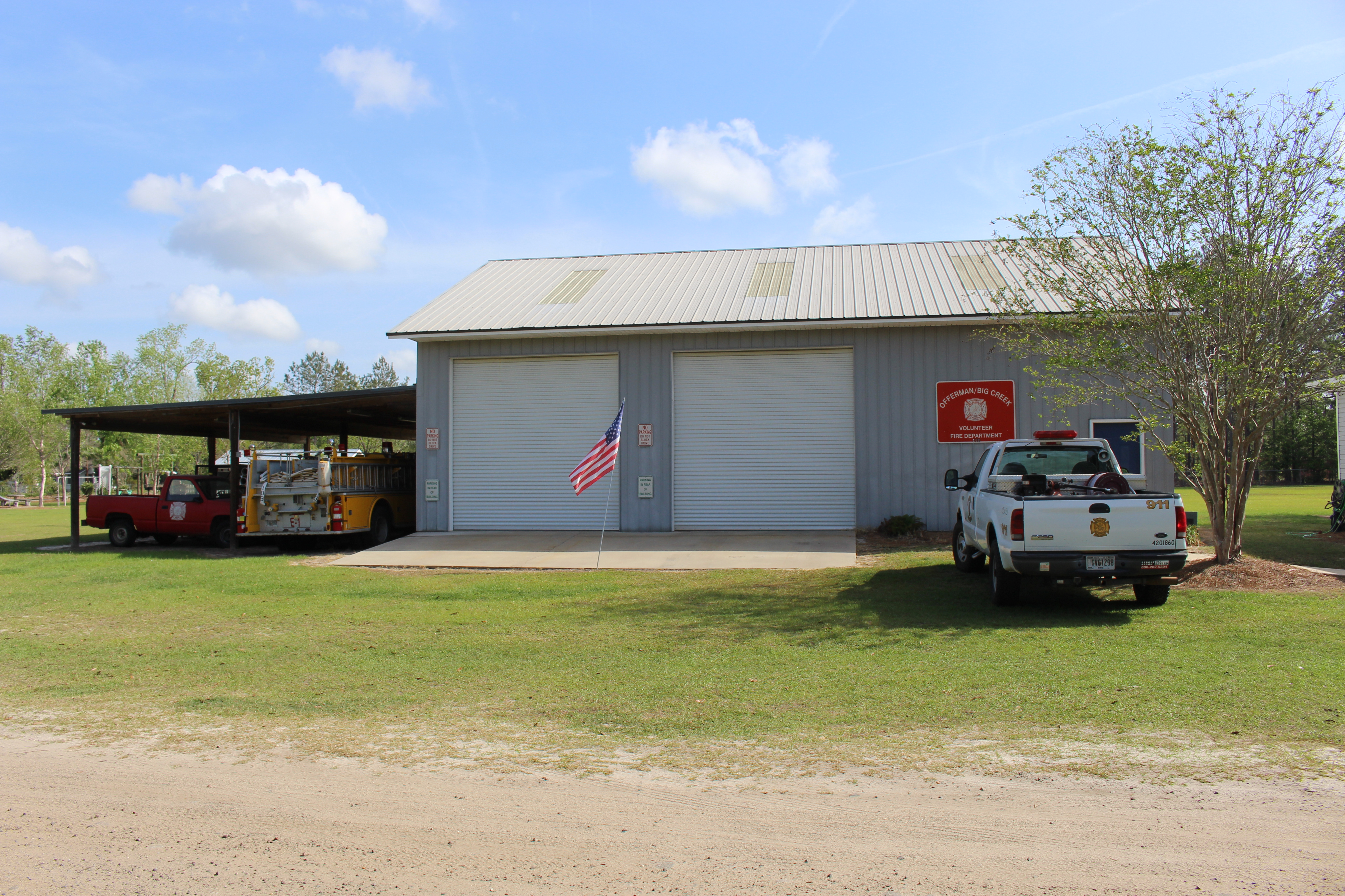 Offerman Big Creek Volunteer Fire Department, Offerman, Pierce County, Georgia